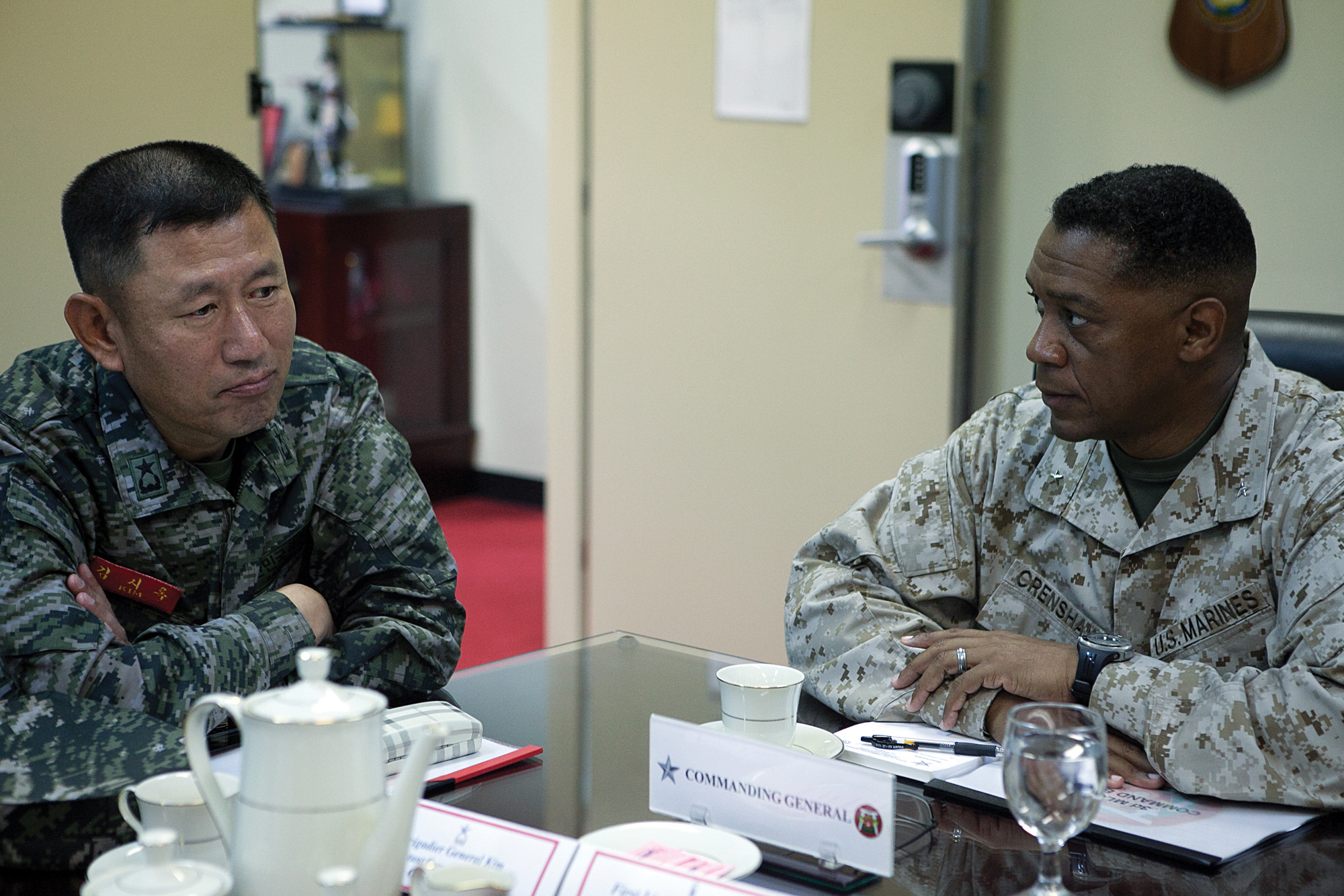 Brig. Gen. Si Rok Kim discusses future training and plans with Brig. Gen. Craig C. Crenshaw during a visit to Camp Kinser June 14. Key leaders with the Republic of Korea Marine Corps also toured a static display of equipment and machinery. Kim is the assistant commandant of the Republic of Korea Marine Corps, and Crenshaw is the commanding general of 3rd Marine Logistics Group, III Marine Expeditionary Force.